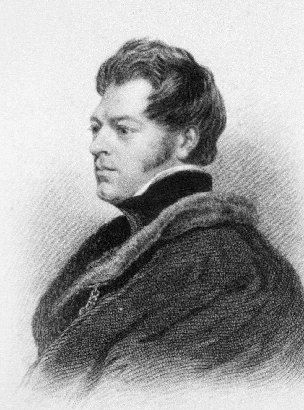 John Redman (February 22, 1722 – March 19, 1808)